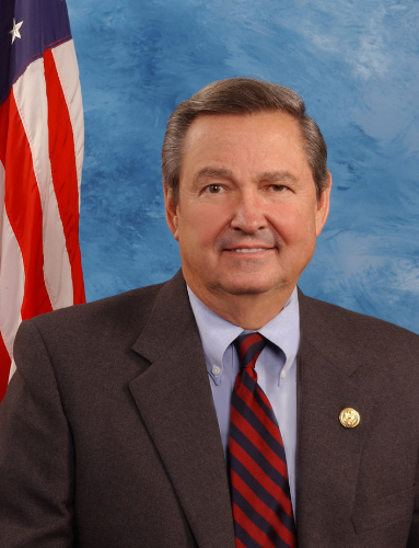 Congressman Clay Shaw, official photograph.